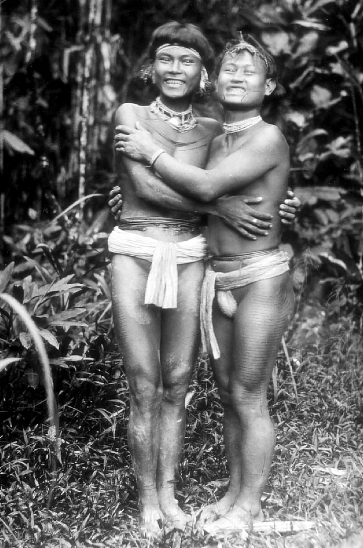 Mentawai men displaying a traditional greeting.